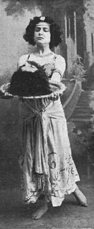 Spanish Actress Margarita Xirgu performing Salomé, by Oscar Wilde